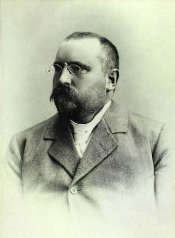 Svend Aage Thim Jordan (1856-1917), Danish editor and politician